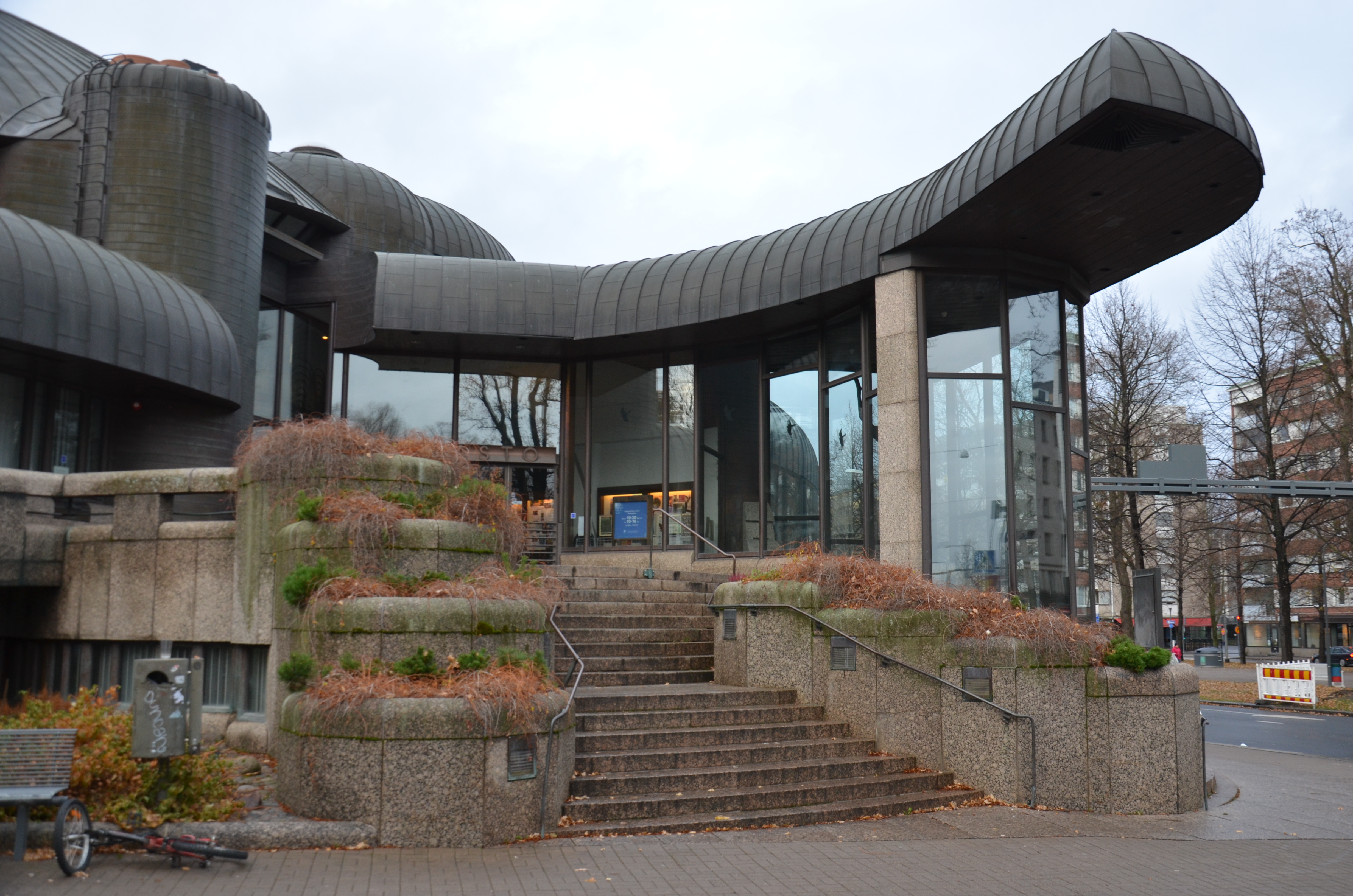 Tampere City Library by Reima och Raili Pietilä